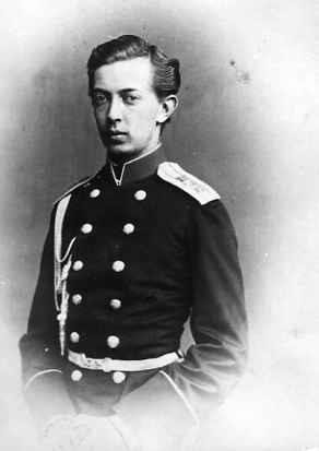 Tsarevich Nicholas Alexandrovich of Russia